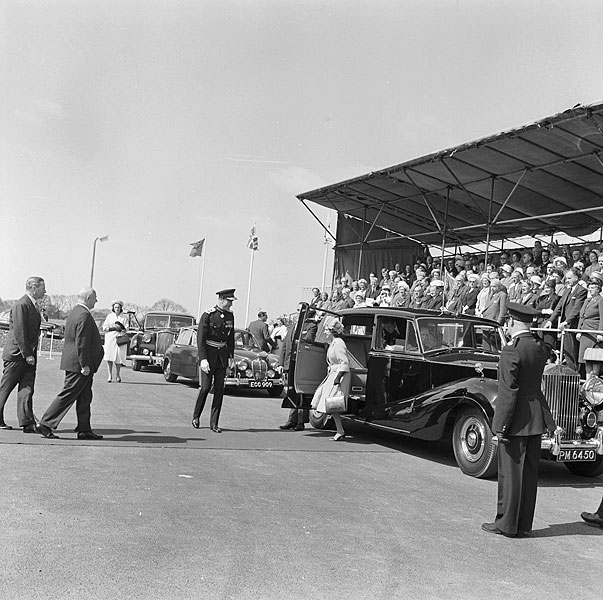 Teitl Saesneg/English title: Opening the Ferodo factory near Caernarfon by Princess Margaret. Ffotograffydd/Photographer: Geoff Charles (1909-2002) Dyddiad/Date: 17/05/1962 Cyfrwng/Medium: Negydd ffilm / Film negative Cyfeiriad/Reference: (gch27445) Rhif cofnod / Record no.: 3471271 Rhagor o wybodaeth am gasgliad Geoff Charles yn Llyfrgell Genedlaethol Cymru More information about the Geoff Charles Collection at the National Library of Wales Mae ffotograffau Geoff Charles hefyd yn rhan o Broject Europeana Libraries Geoff Charles' photographs also form part of the Europeana Libraries Project